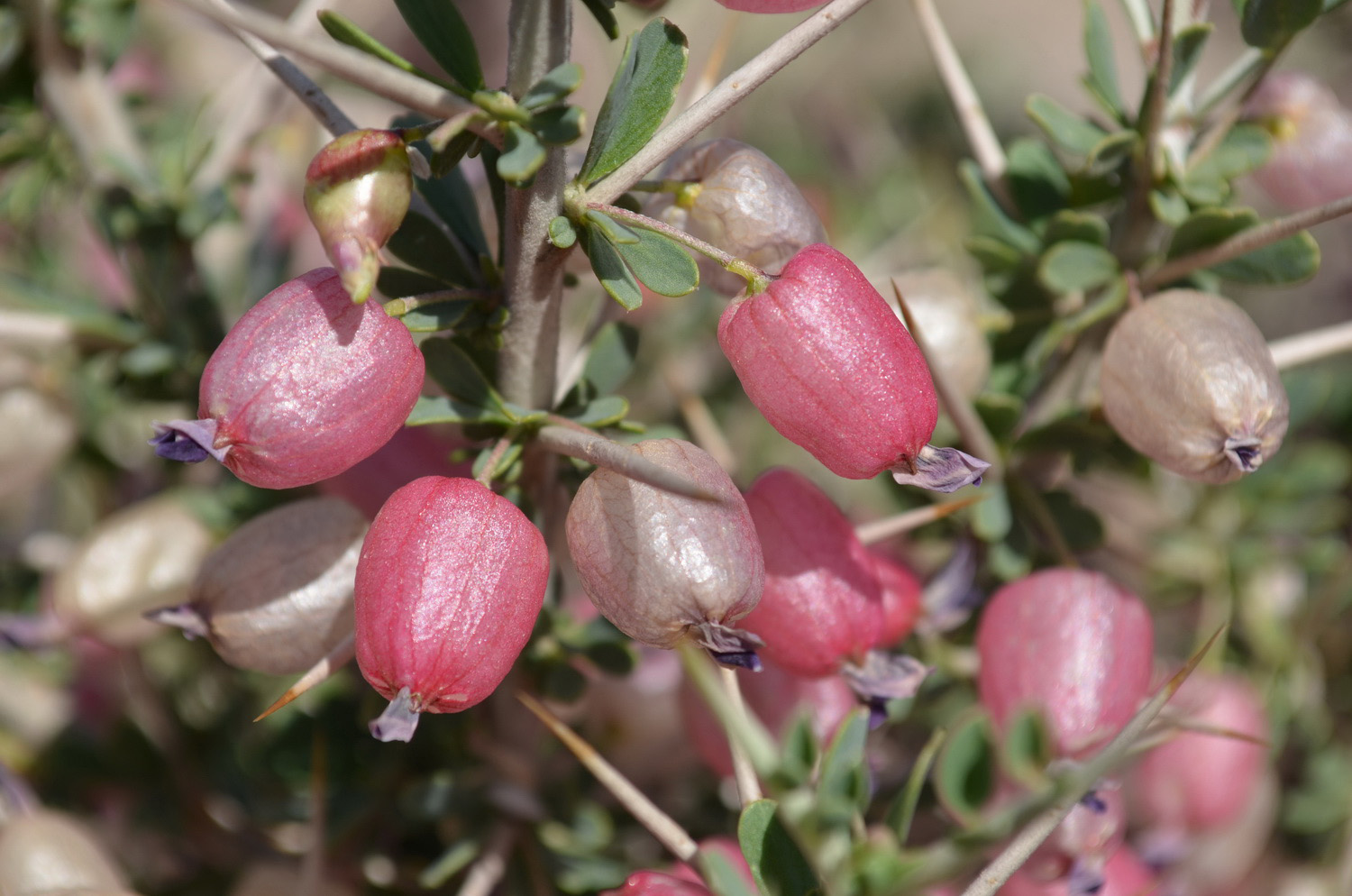 Fars Province, Unnamed Road, Iran